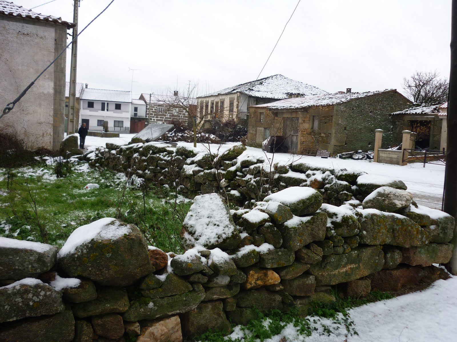 Snow in Duas Igrejas, Miranda do Douro, in Portugal.